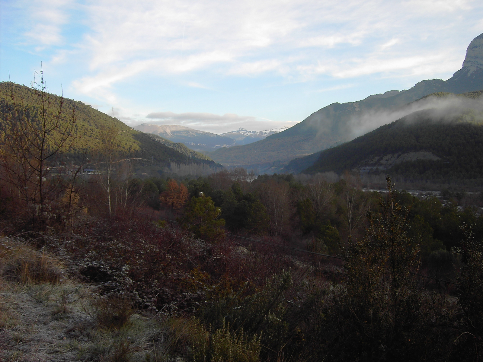 Sunrise on the Cinca's valley, in Huesca, Spain.